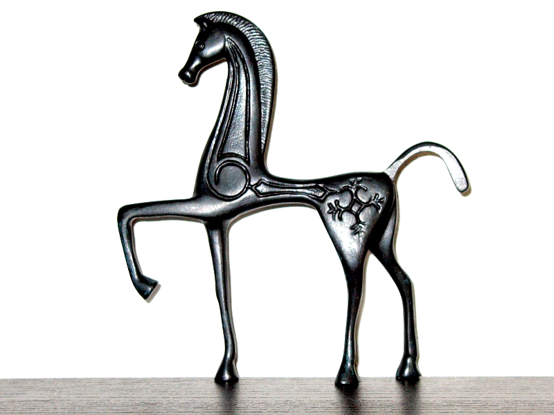 Etruscan Horse - 600 B.C. - height 20cm - Reproduction